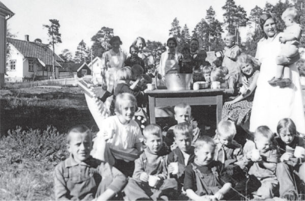 Holiday camp for children organised at the deactivated Hegra Fortress by the Norwegian Red Cross.